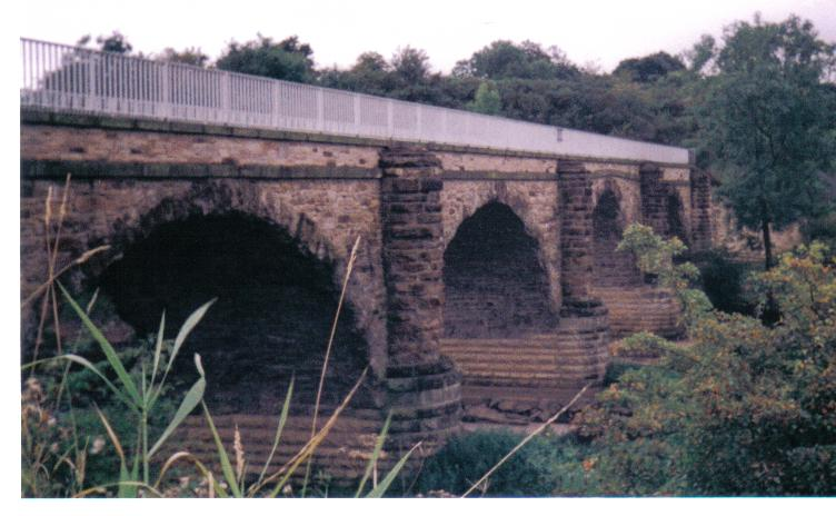 A photograph taken by me and used by me in this article